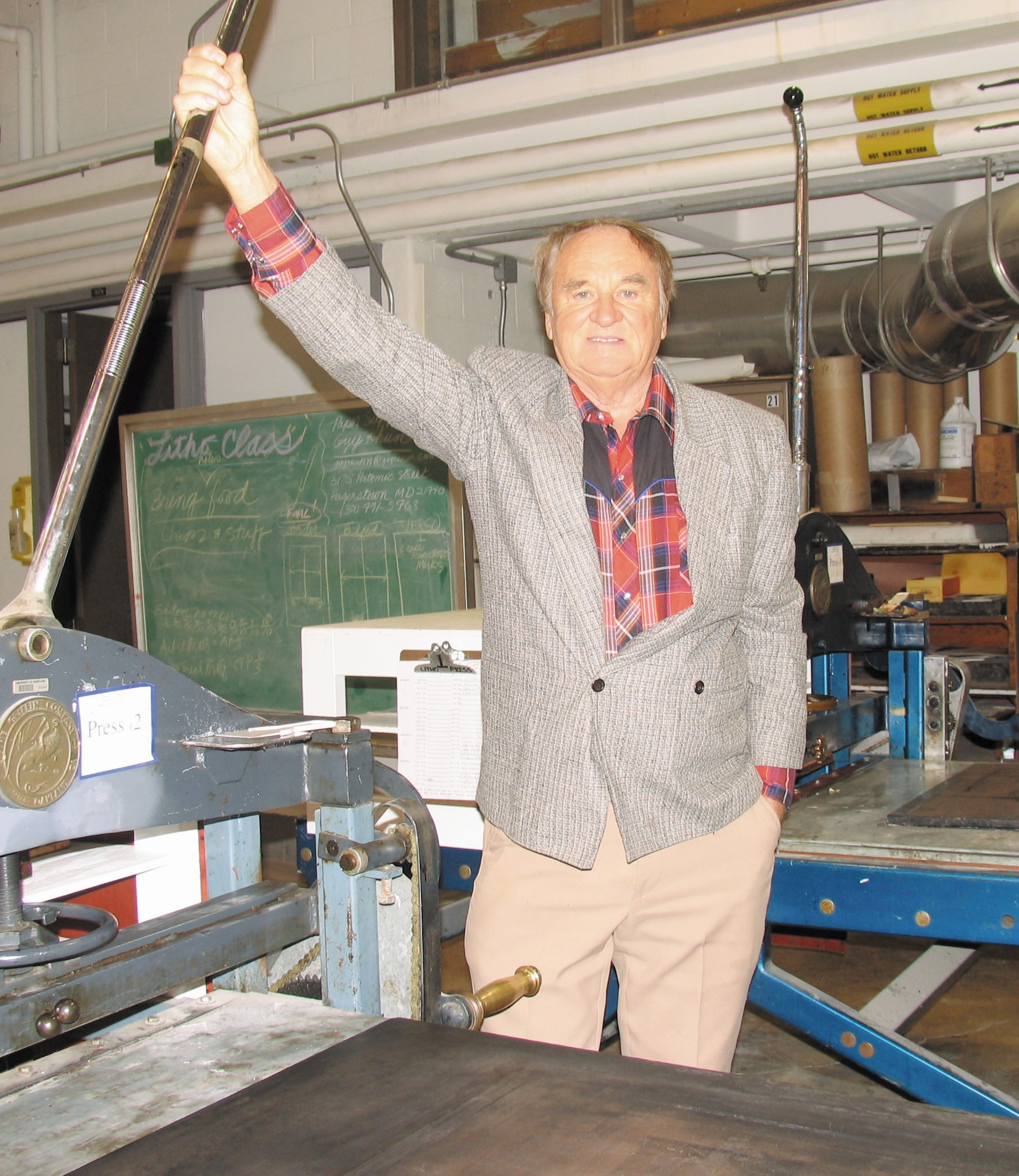 Tadeusz Lapinski